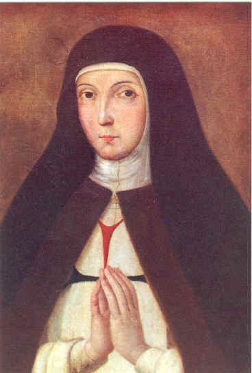 Portrait of Angela María de la Concepción, Trinitarian nun a El Toboso; servant of God and foundress of Recollect Trinitarian Nuns.